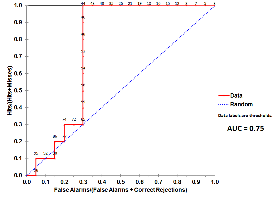 Figure 3: ROC Curve